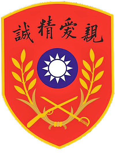 Emblem of Chinese Military Academy.